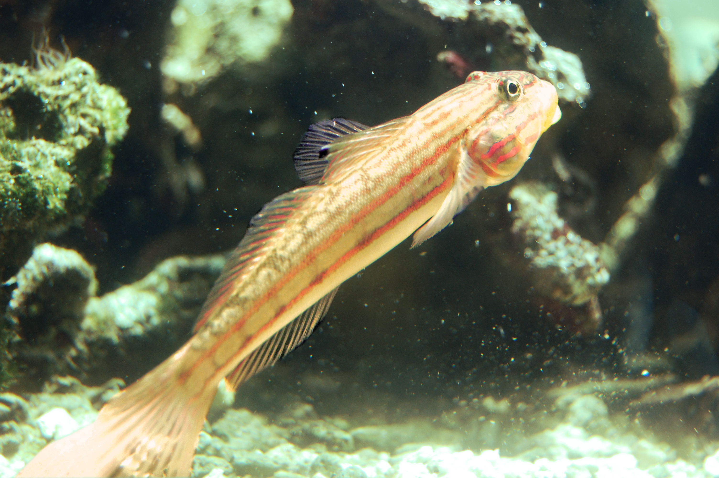 Goby at the Green Connection